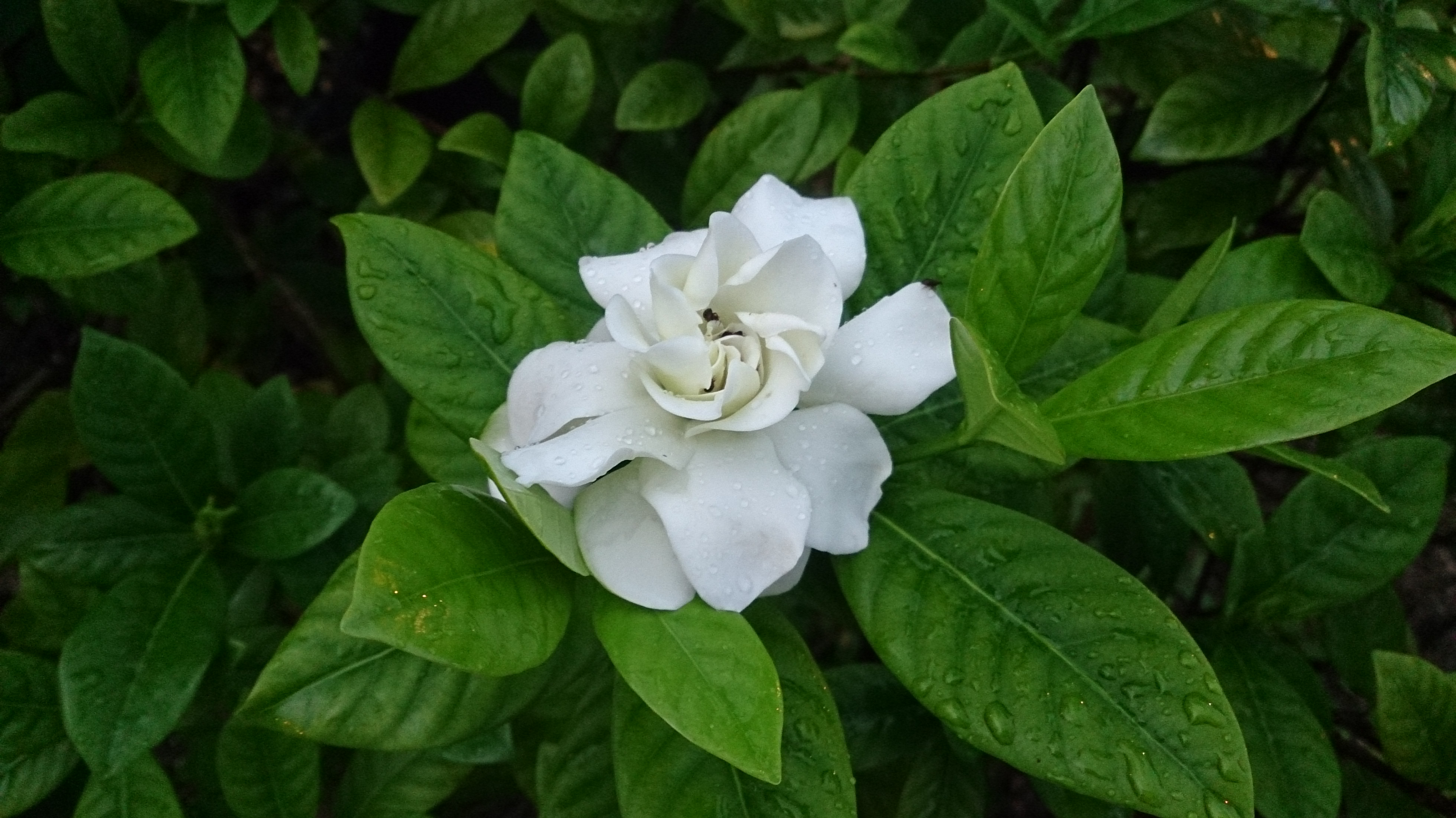 Gardenia jasminoides. Common names: Cape Jasmine. Common Gardenia. zhī zi (栀子) Chinese